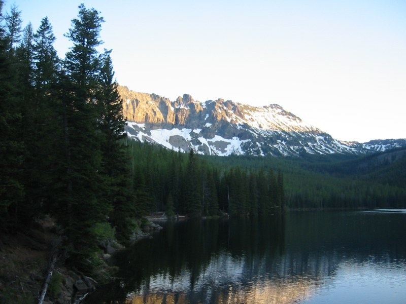 Lower Strawberry Lake, with the Palisades in the background, in the evening sun.